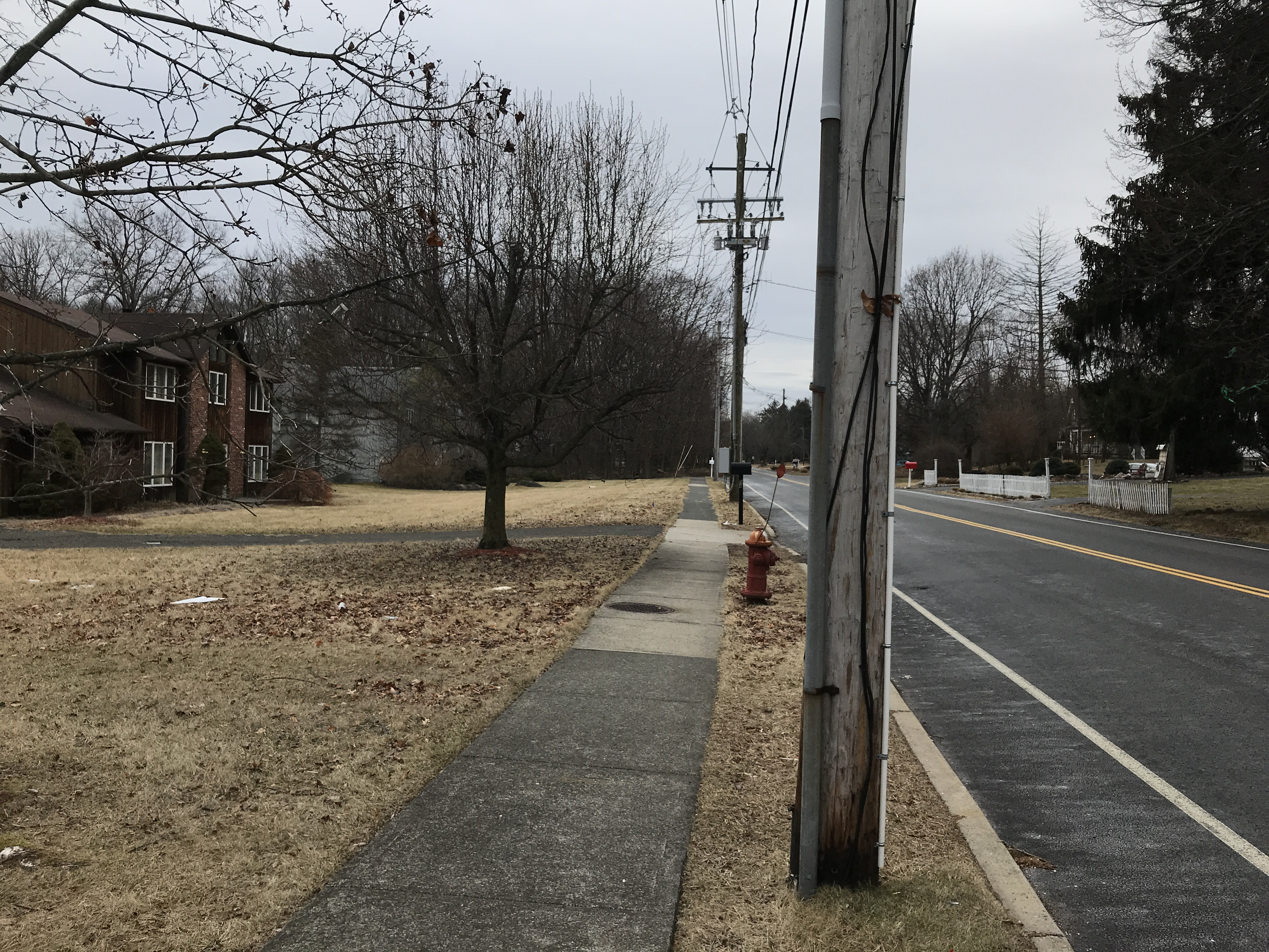 Segment of an eruv, with lechis (the plastic pipes on the poles) visible, Airmont, New York